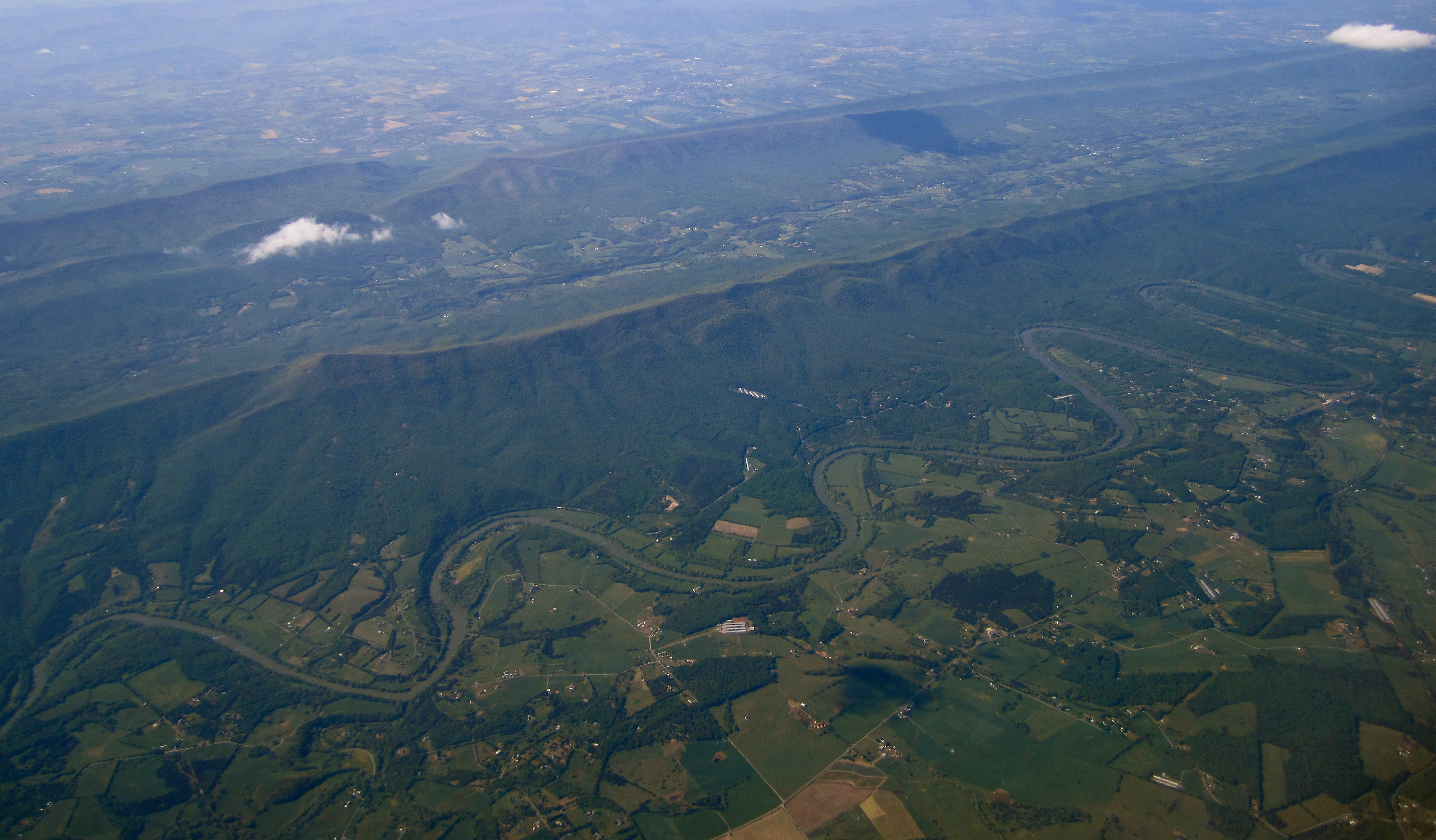 Shenandoah River and Fort Valley, aerial